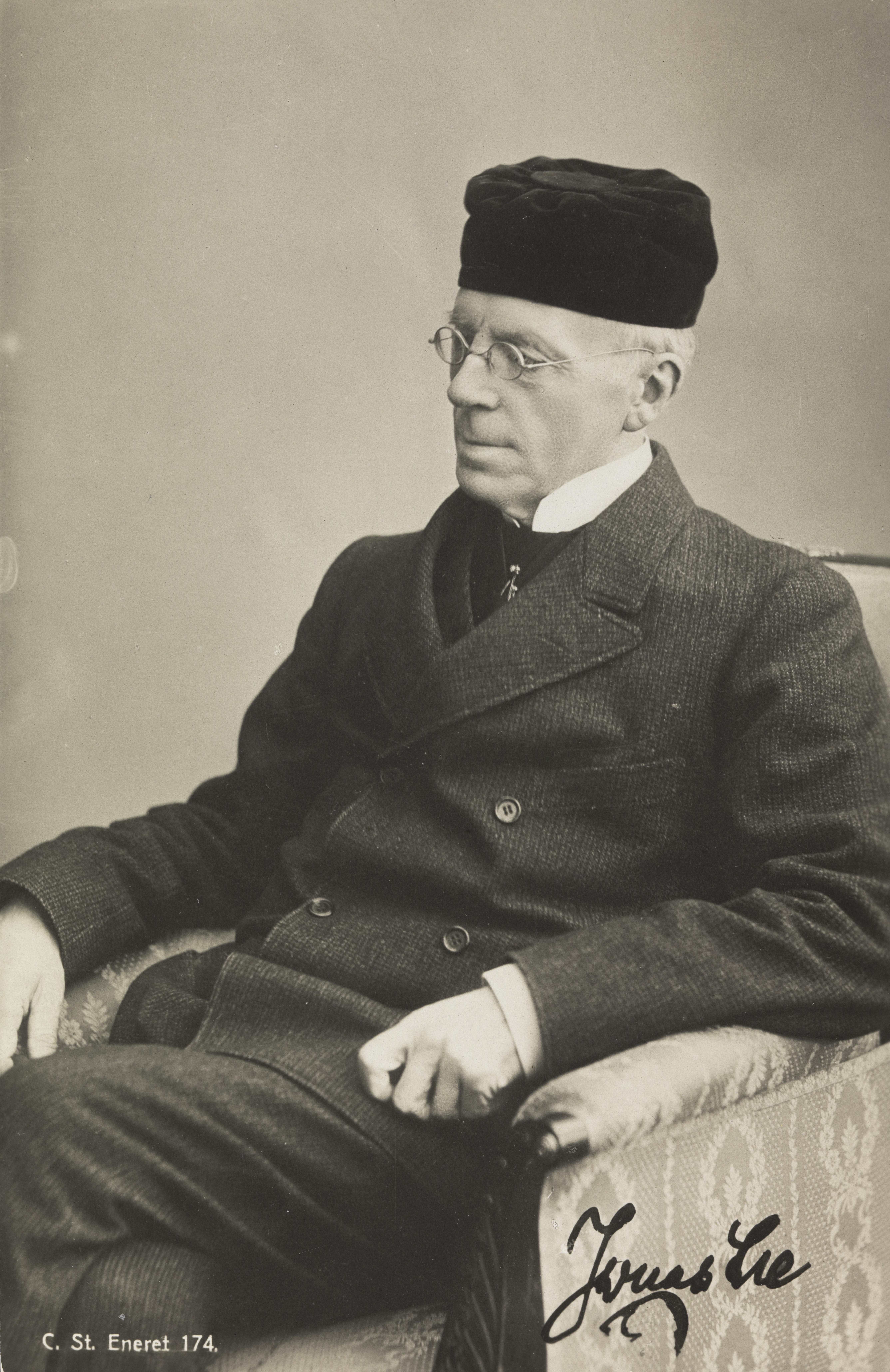 Jonas Lie